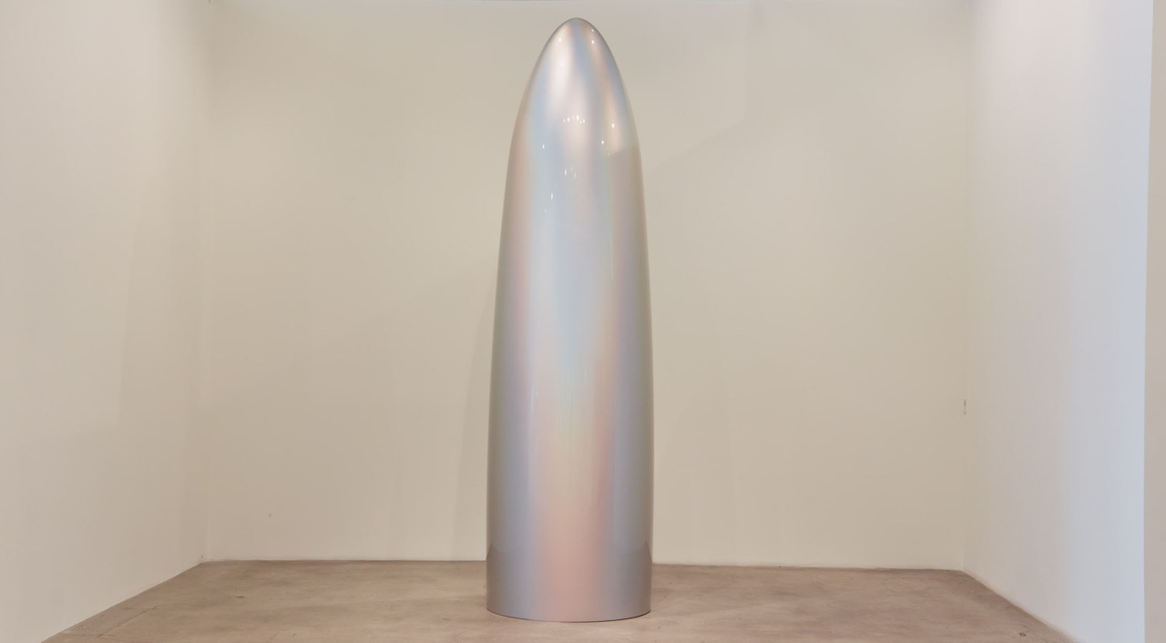 "Untitled (Monolith Silver)," 2016 Engineered carbon fiber 144 x 36 inches, Los Angeles County Museum of Art (LACMA)